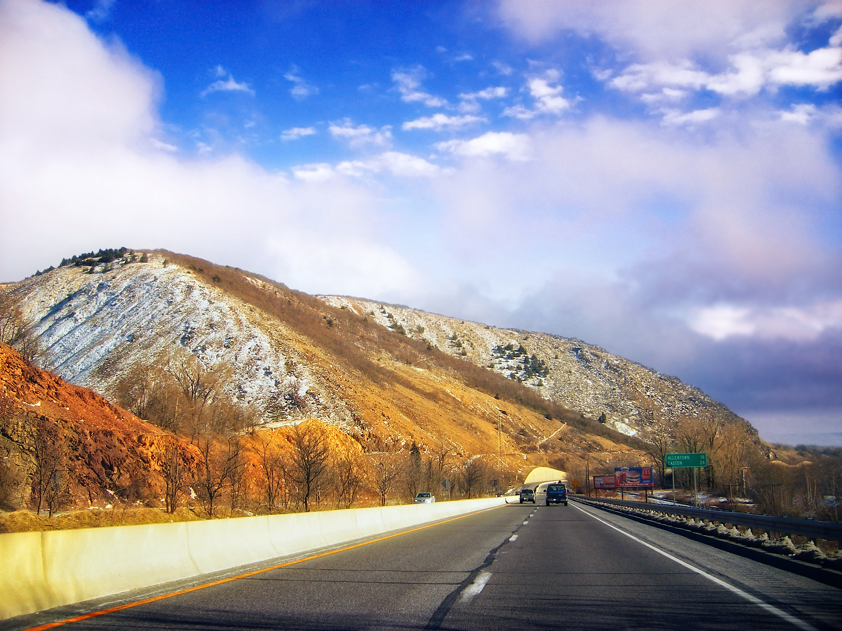 Route 248, Lehigh County?Northampton County line. In this area, just south of Palmerton, the Lehigh River cuts through Blue Mountain to form a distinctive gap. The east side of the gap is visible here. Summer view here.